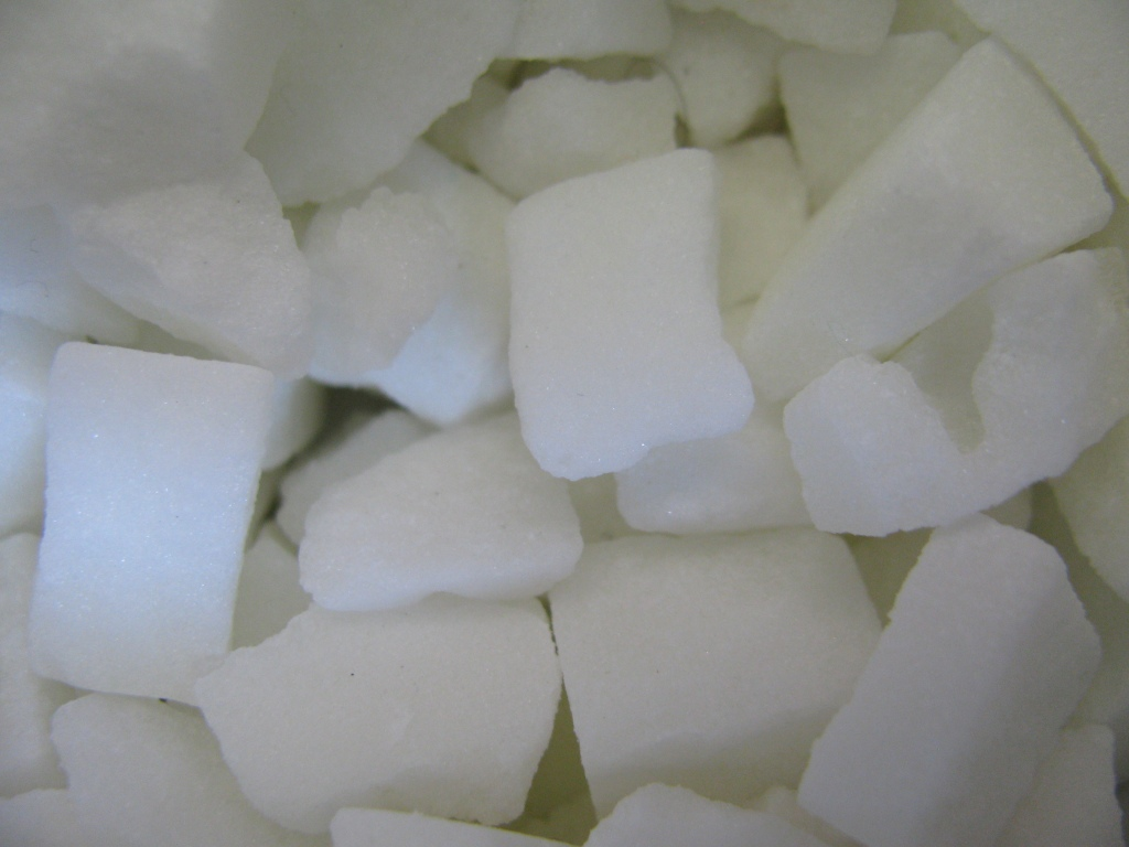 Cube sugar